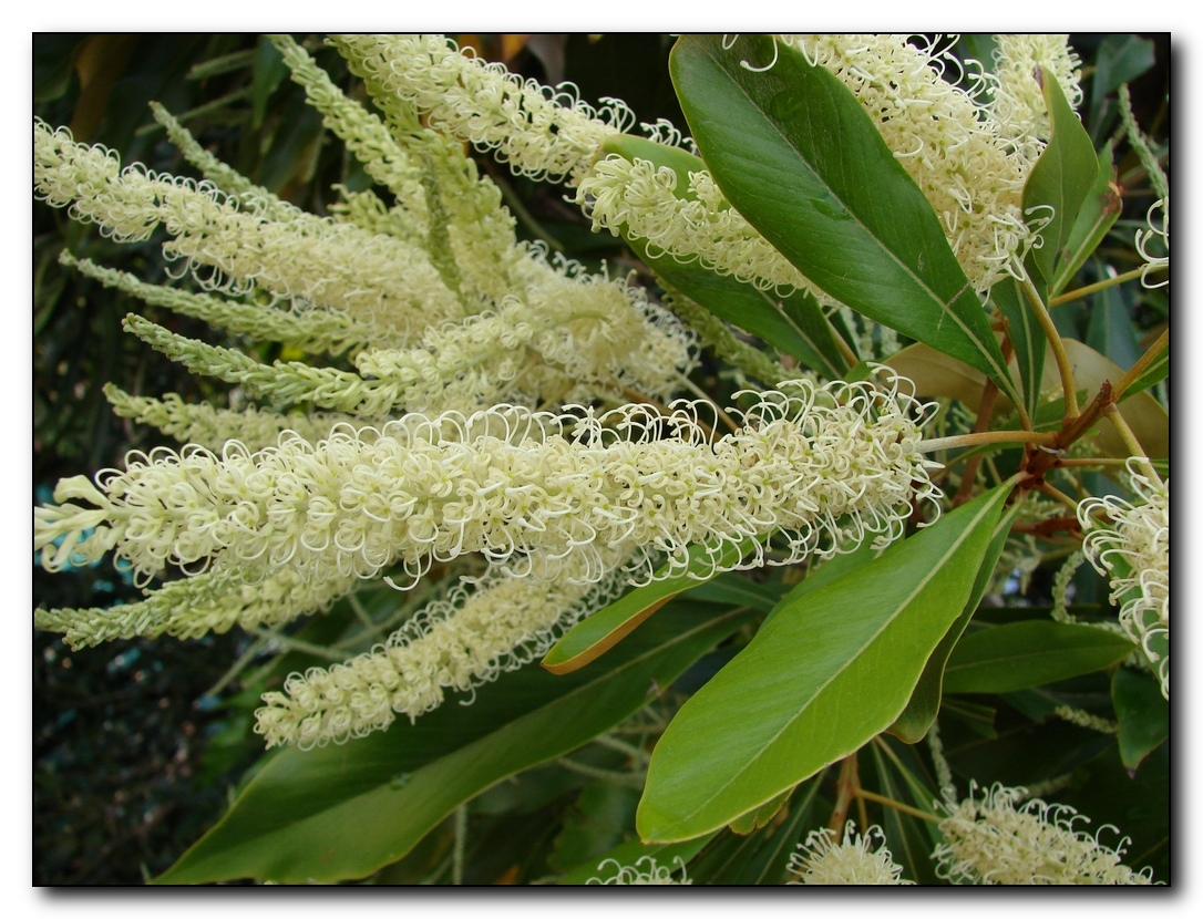 Grevillea baileyana Family : Proteaceae Australian rainforest native tree Photographed in South Bank, Brisbane. Clustered racemes and have a strong nectar perfume which attracts myriad insects to the flower heads. Flowers are similar to Buckinghamia celsissima ('Ivory Curl) and to other grevilleas, but this palnt has leaves are rich green with the underside having a rusty or bronze sheen (you can see it better in the photo below). This is a particularly useful diagnostic point in the growing period. Juvenile leaves have 5-9 broad lobes but adult leaves are simple, glabrous above and finely silky beneath. .au/g-bai.html